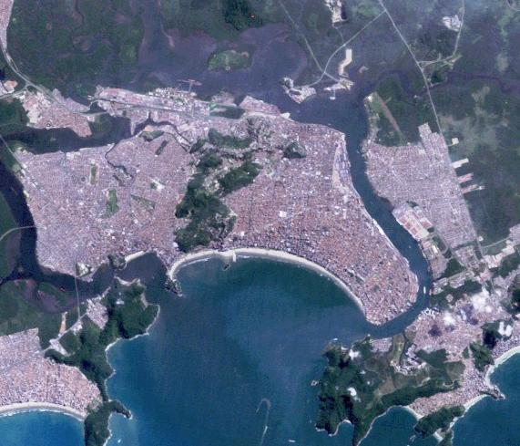 Santos satellite image by Landsat.